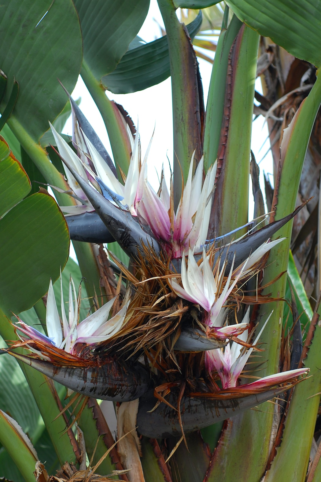 Species from South Africa Photographed in Ventura, CA